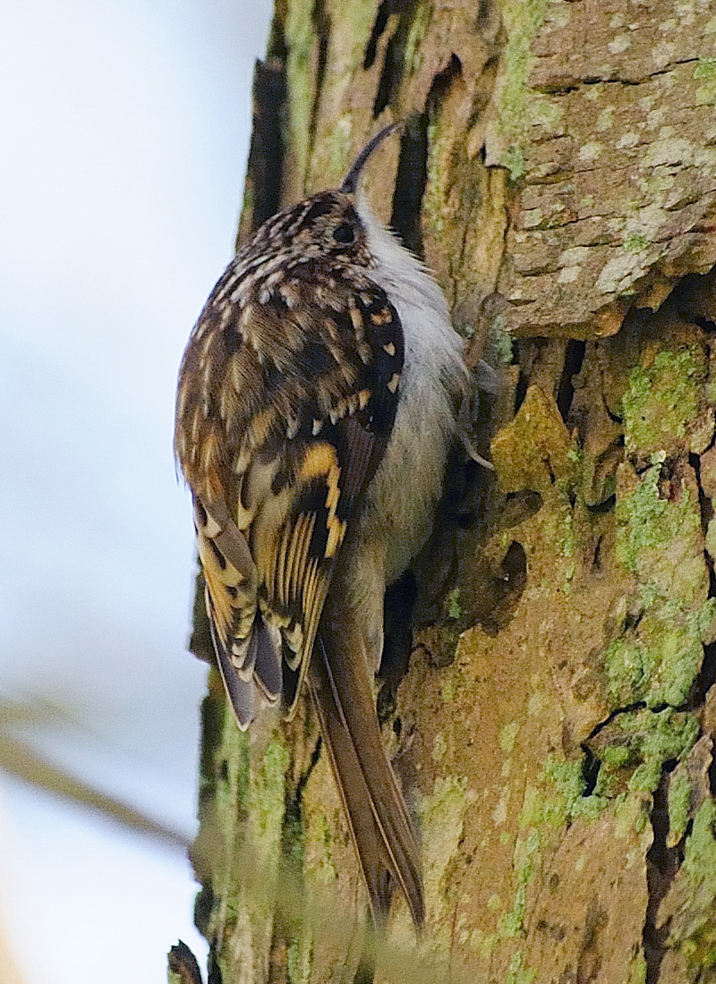 Eurasian Treecreeper Certhia familiaris, Hawthorn Dene, Co Durham, UK. It is climbing up a tree trunk.